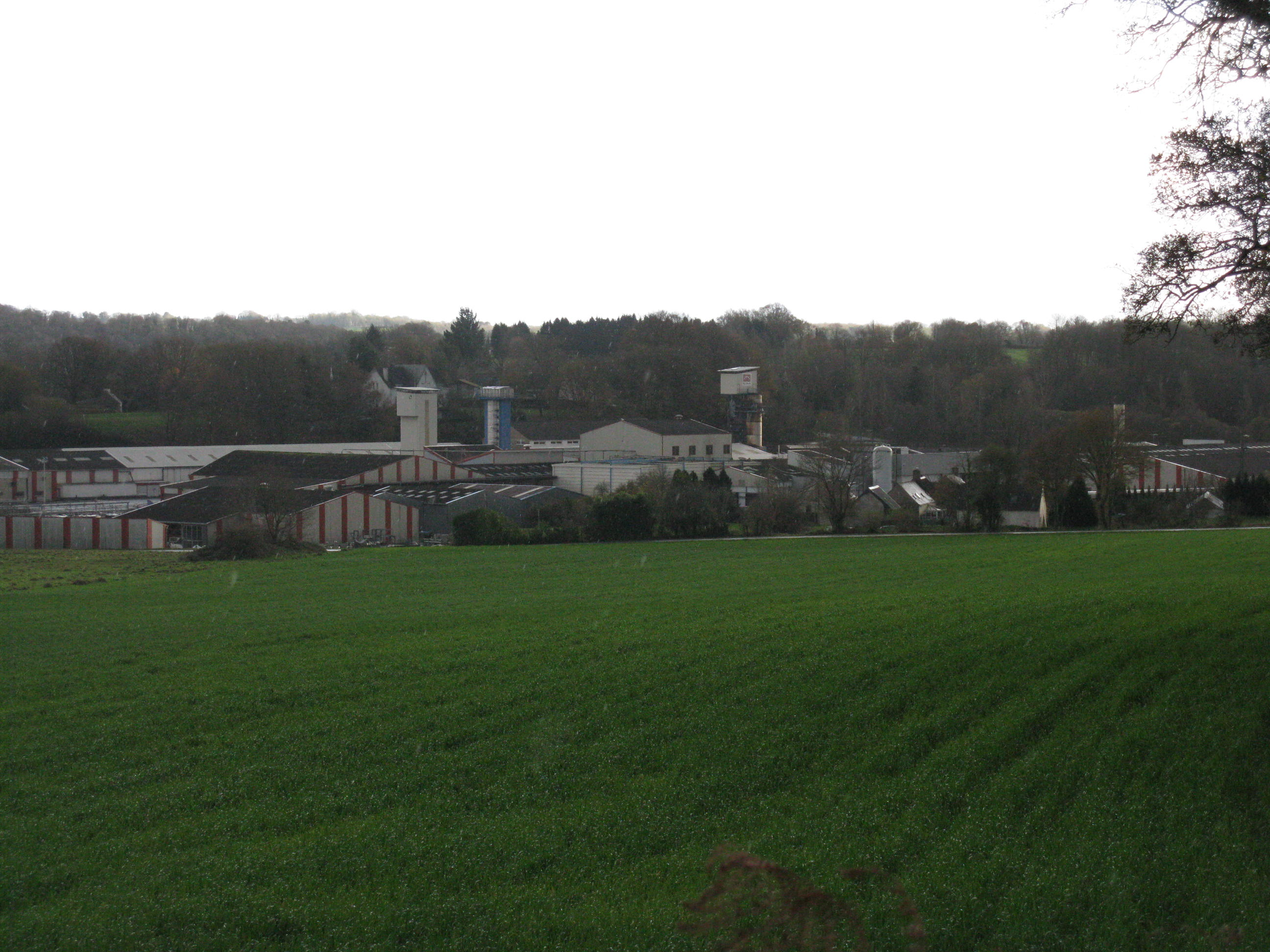 The Morbihannaise canning factory implanted on the course of Inam in the place of the ancient mill of the Coutume